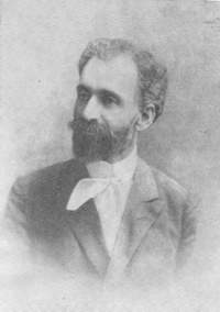 Hovhannes Toumanian